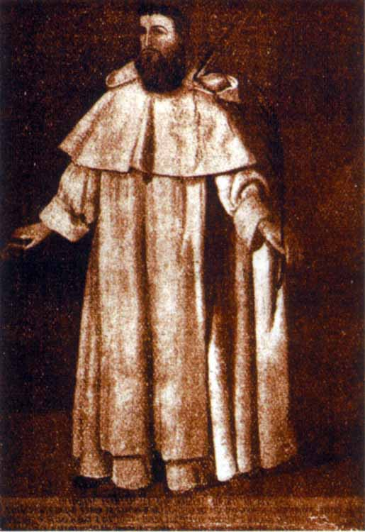 Blessed Sanctius of Aragon, bishop of Toledo, son of James I of Aragon, and mercedarian friar, martyr at Granada